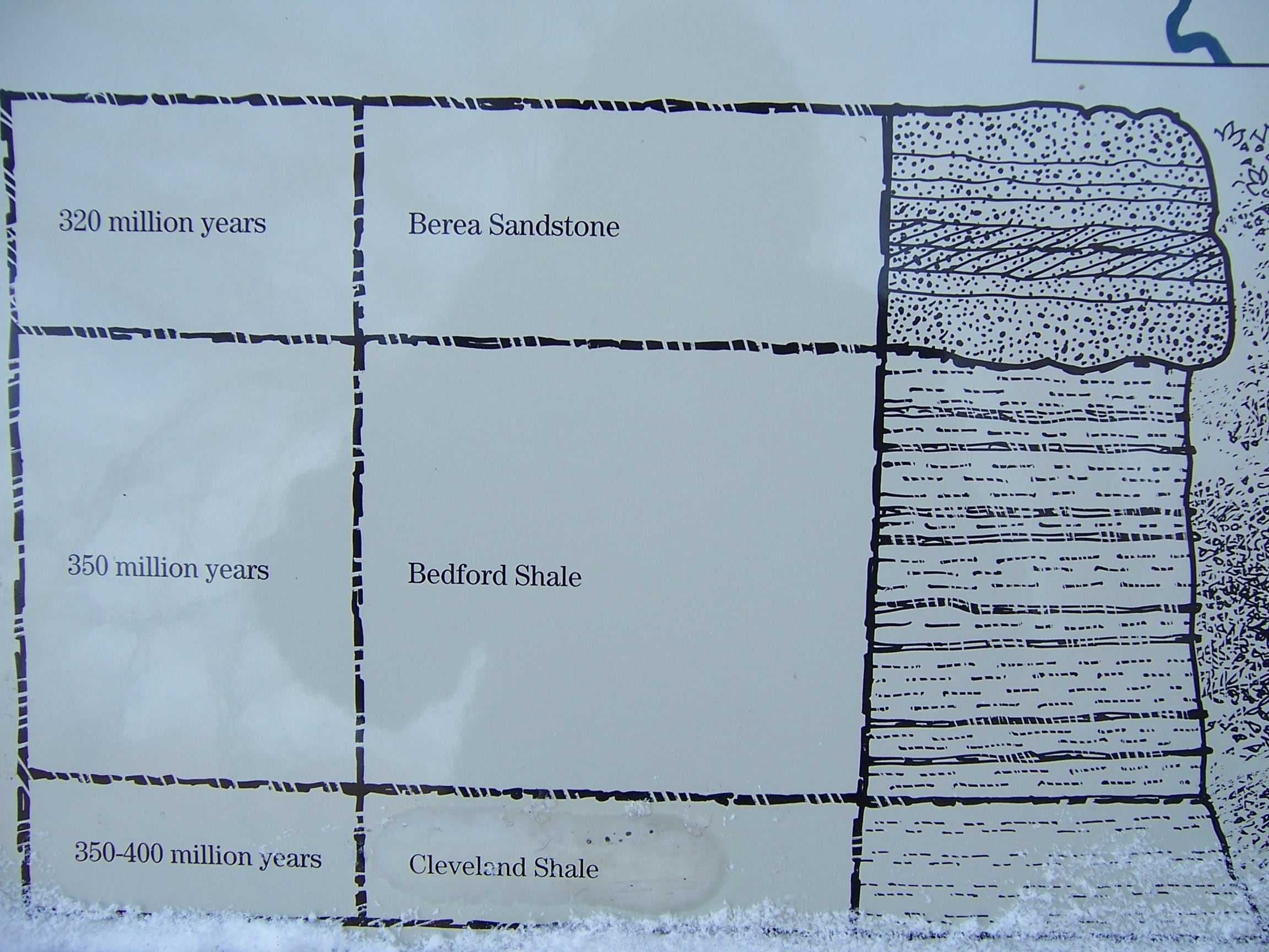 Sign at Cuyahoga Valley National Park illustrating the rock layers of Brandywine Falls